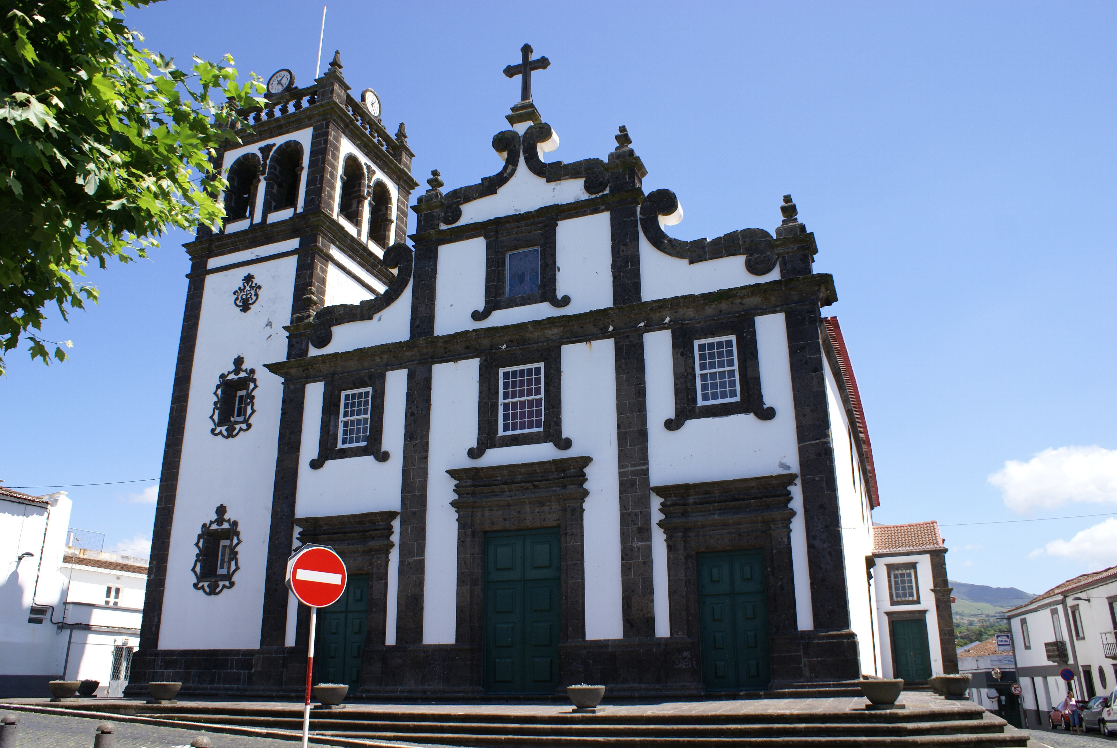 Front façade of the Church of Nossa Senhora do Rosário, Lagoa, São Miguel (Azores), Portugal